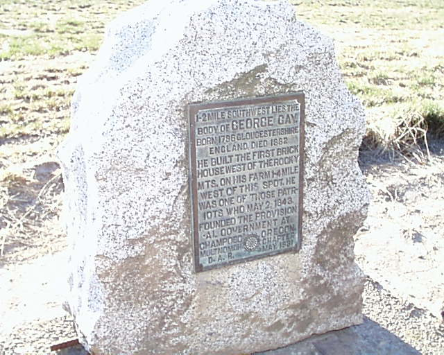 Granite and bronze marker by Daughters of the American Revolution commemorating the grave and house of George Gay, pioneer of Yamhill County, Oregon on Oregon Route 221 at MP 9.6 on the Polk/Yamhill County line.